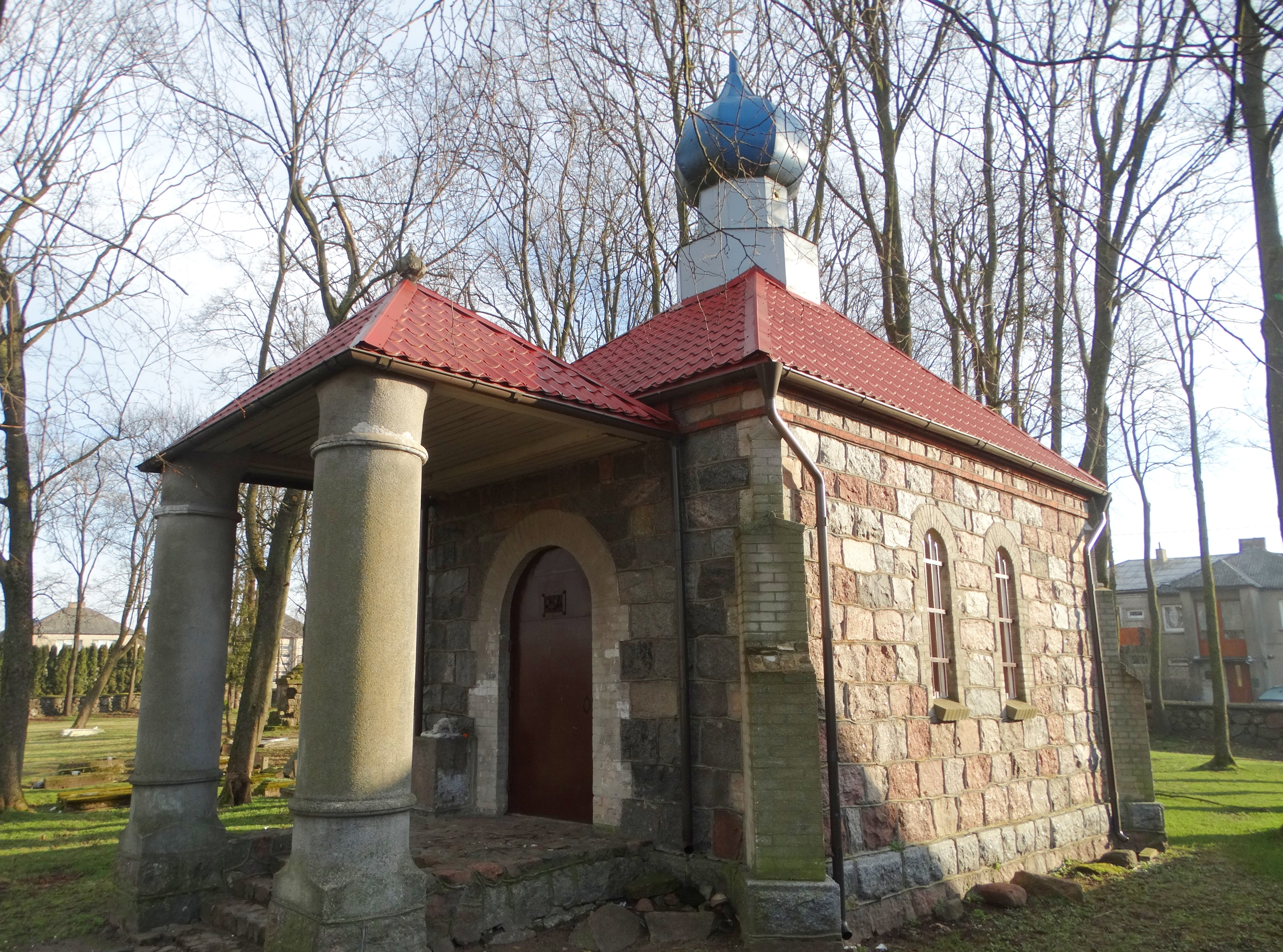 Saint Eleutherius Chapel, Kretinga, Lithuania